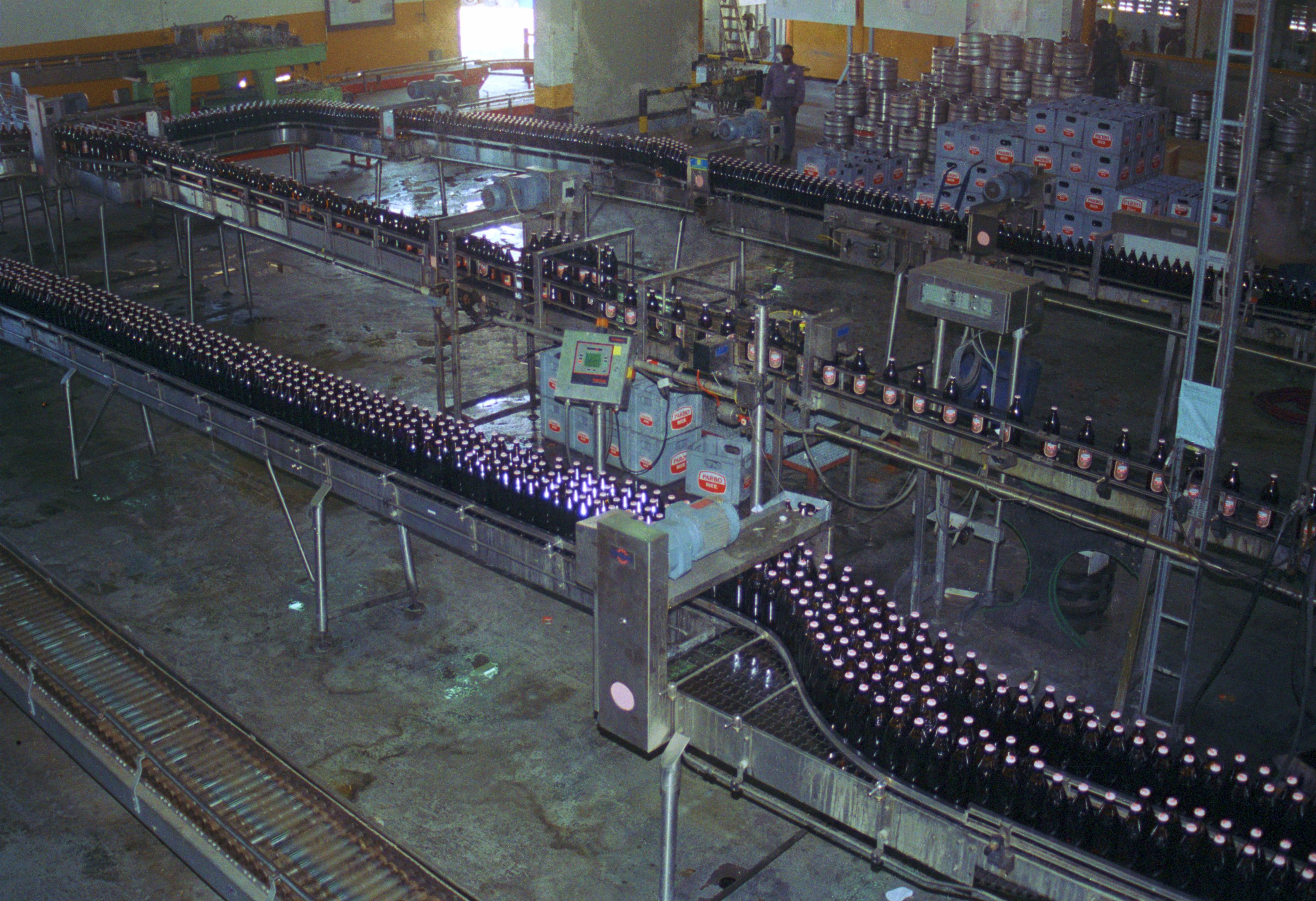 This is a picture of the inside of the Surinaamse Brouwerij, otherwise known as the Parbo Bier Brewery.